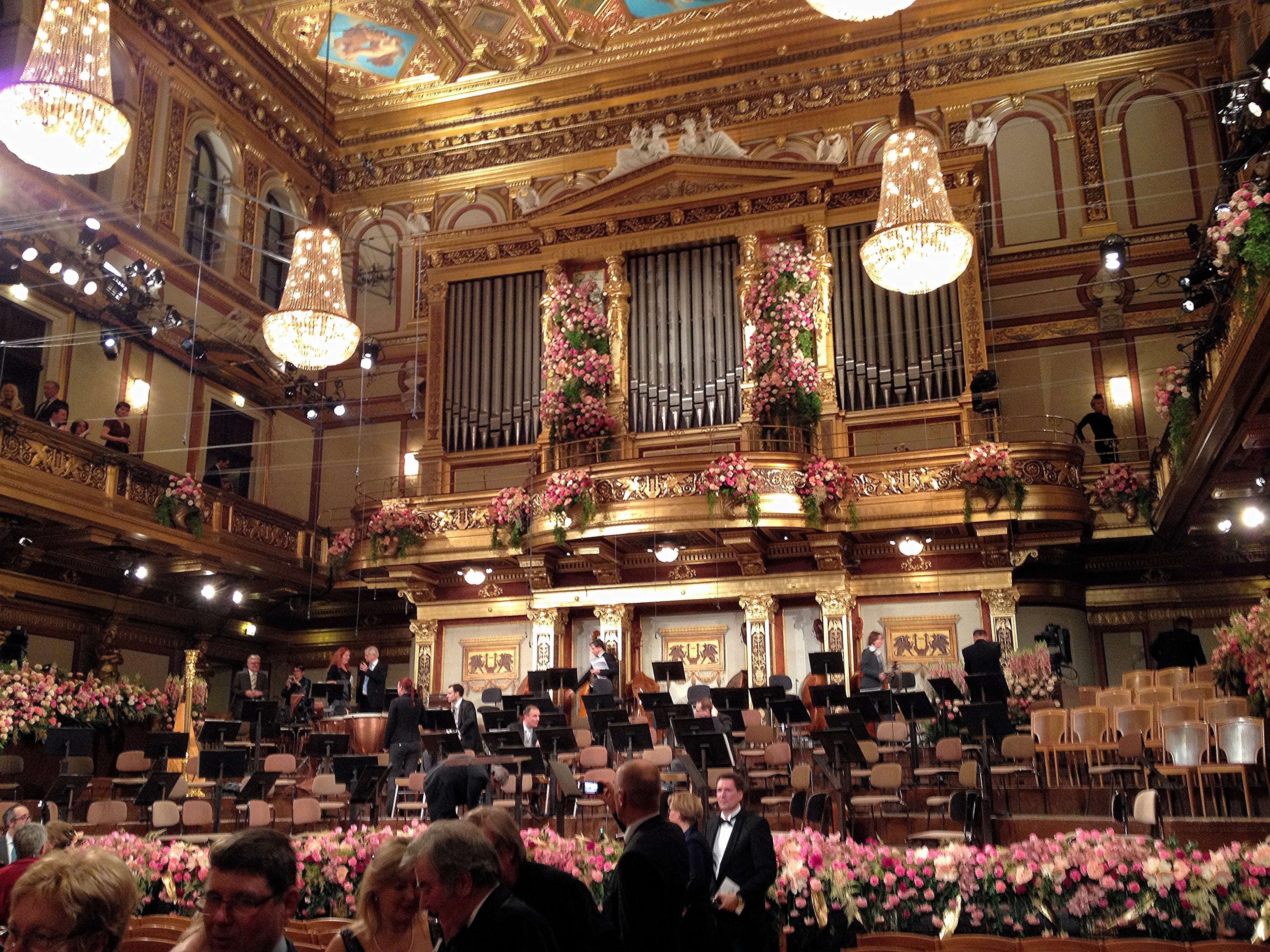 The New Year's Eve Concert 2013 at The Wiener Musikverein